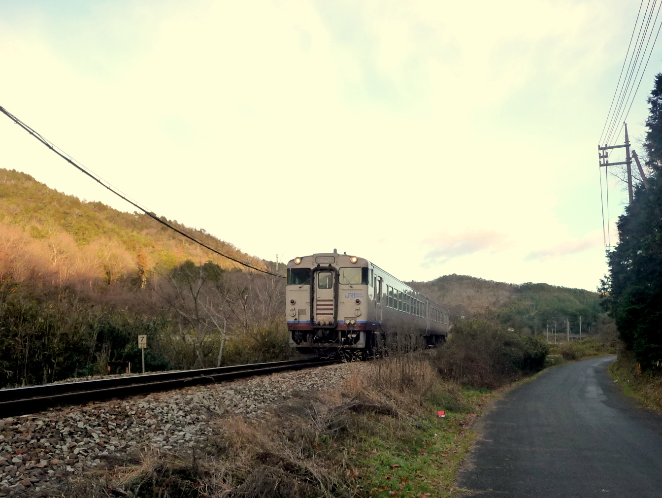 Kotobuki, a train at JR Tsuyama Line.